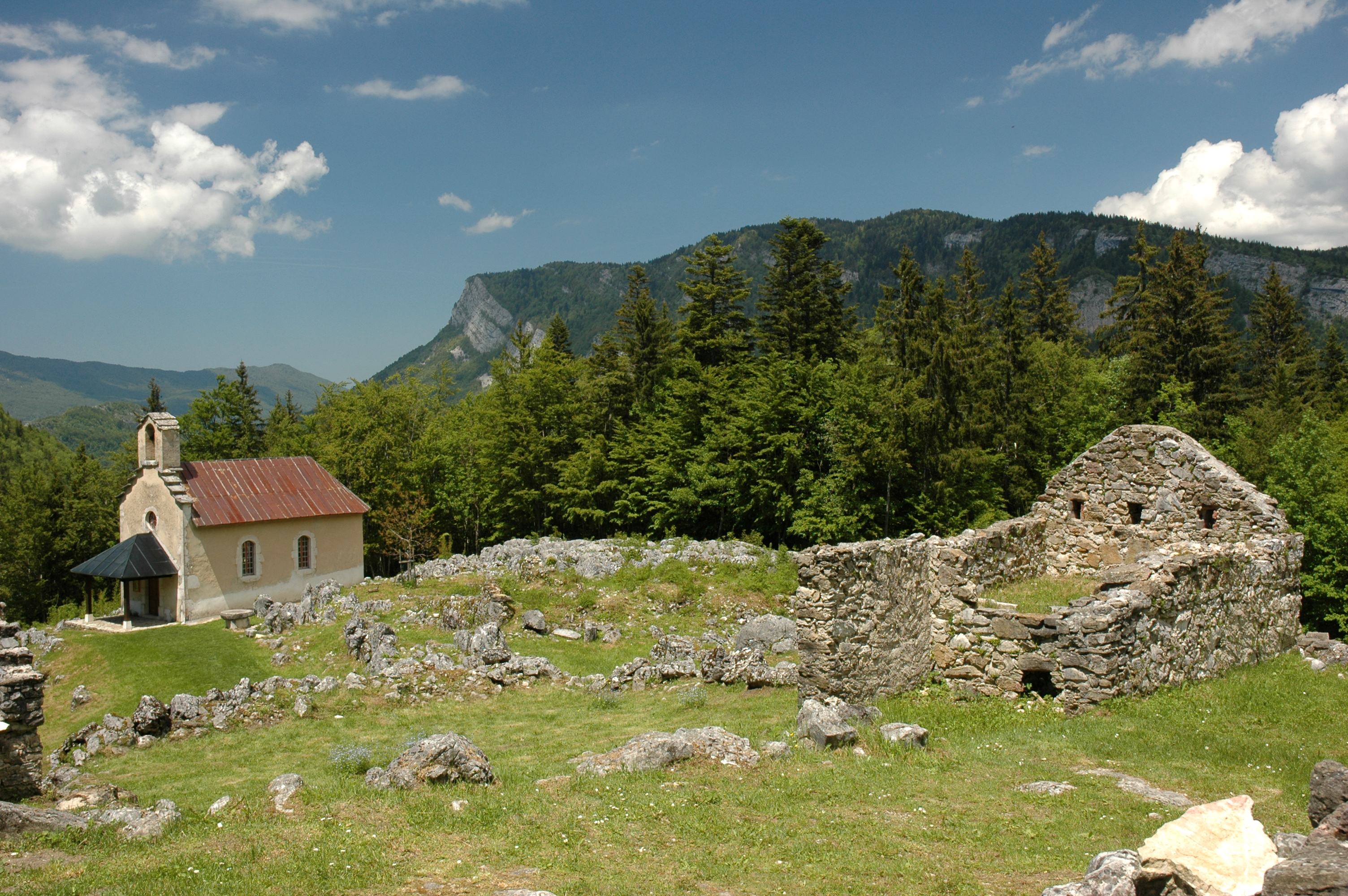 Valchevrière, hamlet razed by the nazis